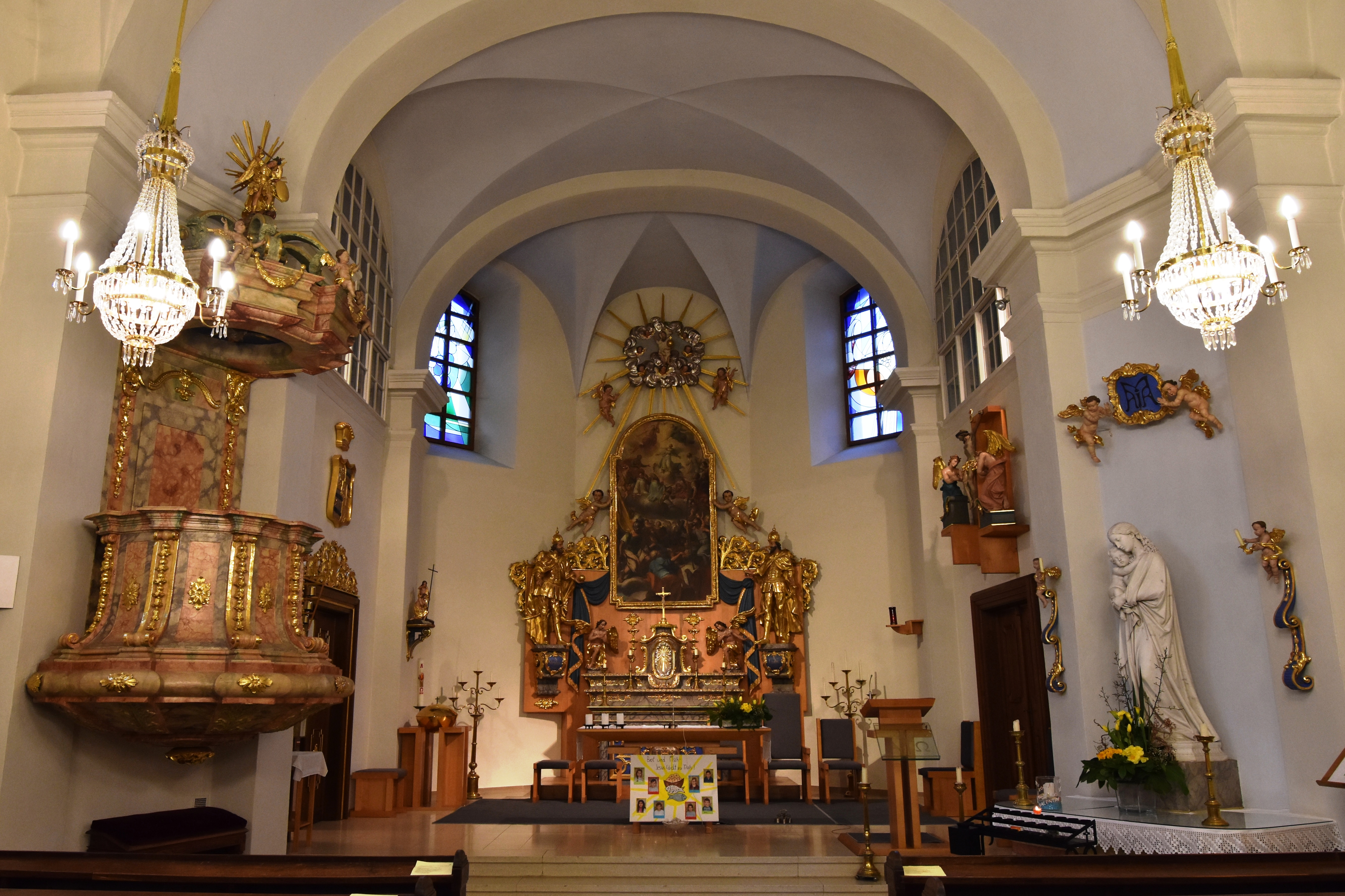 All Saints Church, Rotenturm an der Pinka - Interior